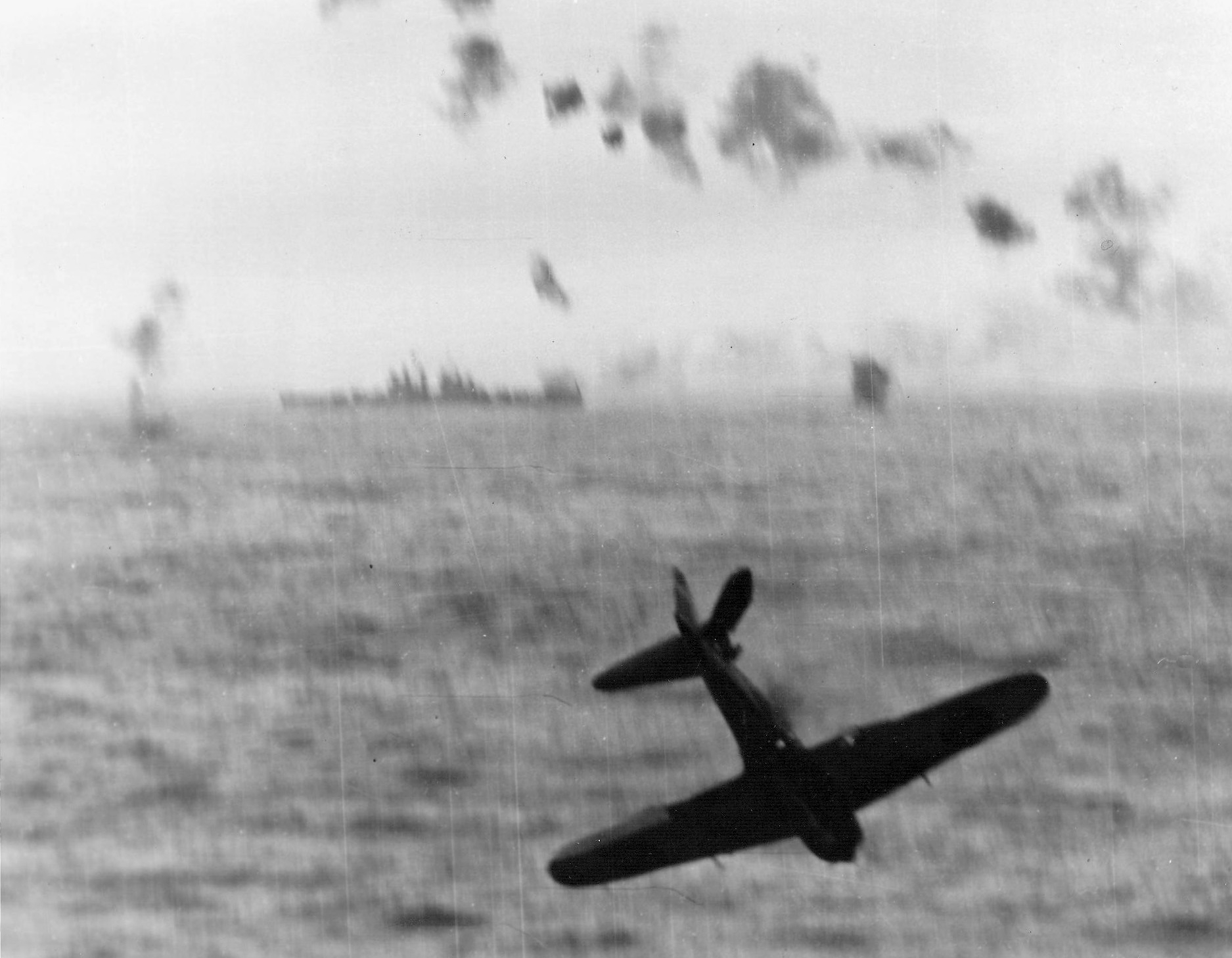 A Japanese Mitsubishi A6M5 Zero Kamikaze fighter before crashing into the sea after trying to hit the U.S. Navy aircraft carrier USS Essex (CV-9) off Okinawa, in 1945. Note the Cleveland-class light cruiser in the background.